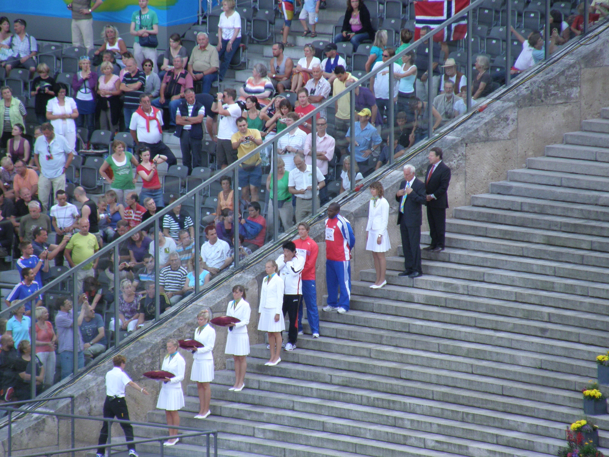 Javelin throw men - medal ceremony, Berlin 2009: Yukifumi Murakami, Andreas Thorkildsen, Guillermo Martínez